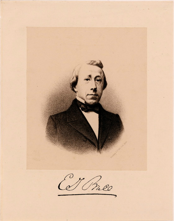 Evert Jan Brill, publisher in Leiden